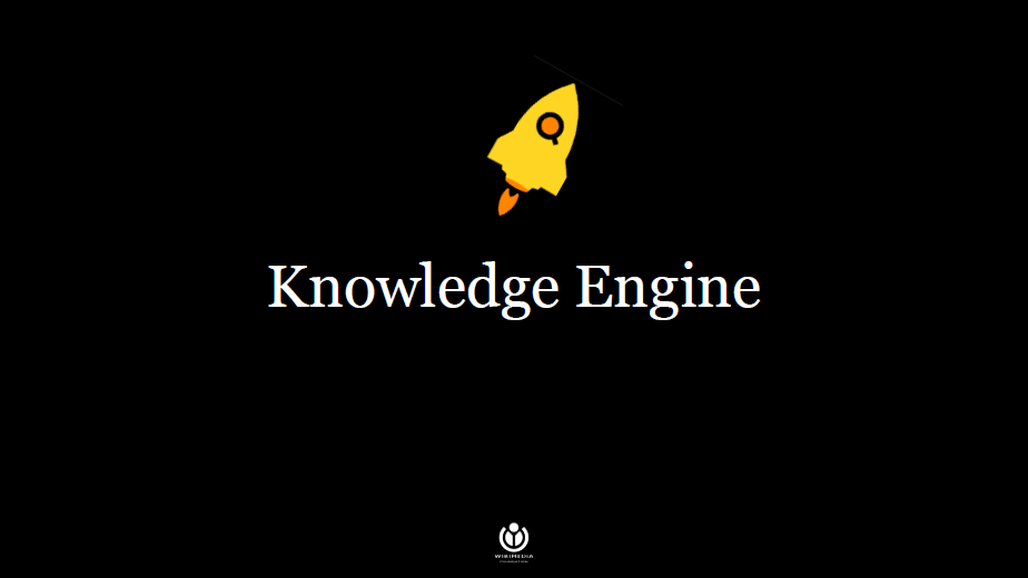 Knowledge Engine by Wikipedia